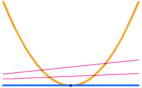 parabola and lines intersecting to illustrate multiplicity two